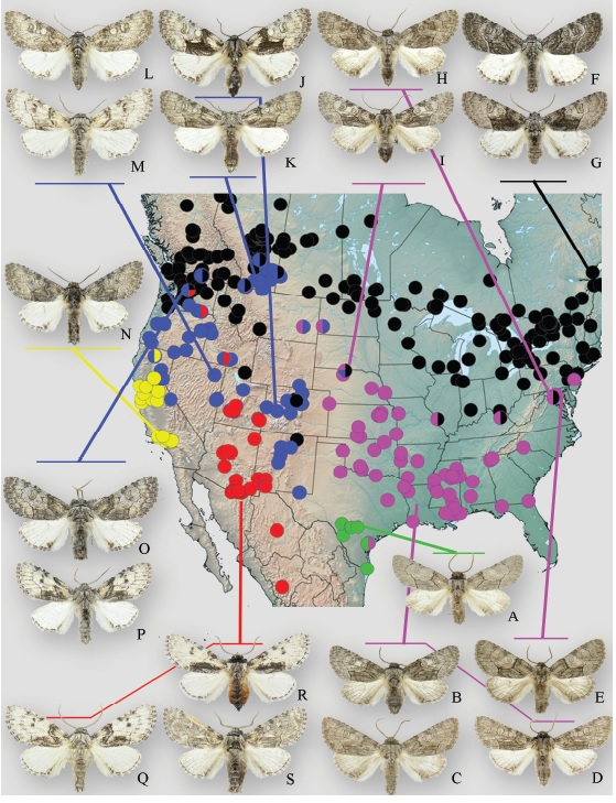 Geographic distribution and phenotypic variation of Raphia frater subspecies: green – Raphia frater subsp. piazzi pink – Raphia frater subsp. abrupta black – Raphia frater subsp. frater blue – Raphia frater subsp. coloradensis yellow – Raphia frater subsp. cinderella Multi-coloured circles indicate transitional populations and/or phenotypically intermediate specimens between respective subspecies. a R. f. piazzi (Zavallo Co., TX) b R. f. abrupta (Oktibeha Co., MS) c R. f. abrupta (Cottle Co., TX) d R. f. abrupta (Cottle Co., TX) e R. f. abrupta (Montgomery Co., MD) f, g R. f. frater (Edmunston, NB) h R. f. abrupta – frater intermediate (Anne Arundel Co., MD) i R. f. abrupta – frater – coloradensis intermediate from highly variable population in Cherry Co., NE j R. f. coloradensis (Alamosa Co., CO) k R. f. coloradensis (Milk River valley, AB) l R. f. coloradensis (Sanpete Co., UT) m R. f. coloradensis (Elko Co., NV) n R. f. cinderella (Ventura Co., CA) o, p R. f. coloradensis – frater intermediates (Chelan Co., WA) q R. f. elbea (Cochise Co., AZ) r R. f. elbea (San Juan Co., UT) s R. f. elbea (Santa Cruz Co., AZ). All specimens are males.